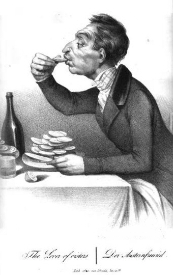 „The Lover of Oisters“